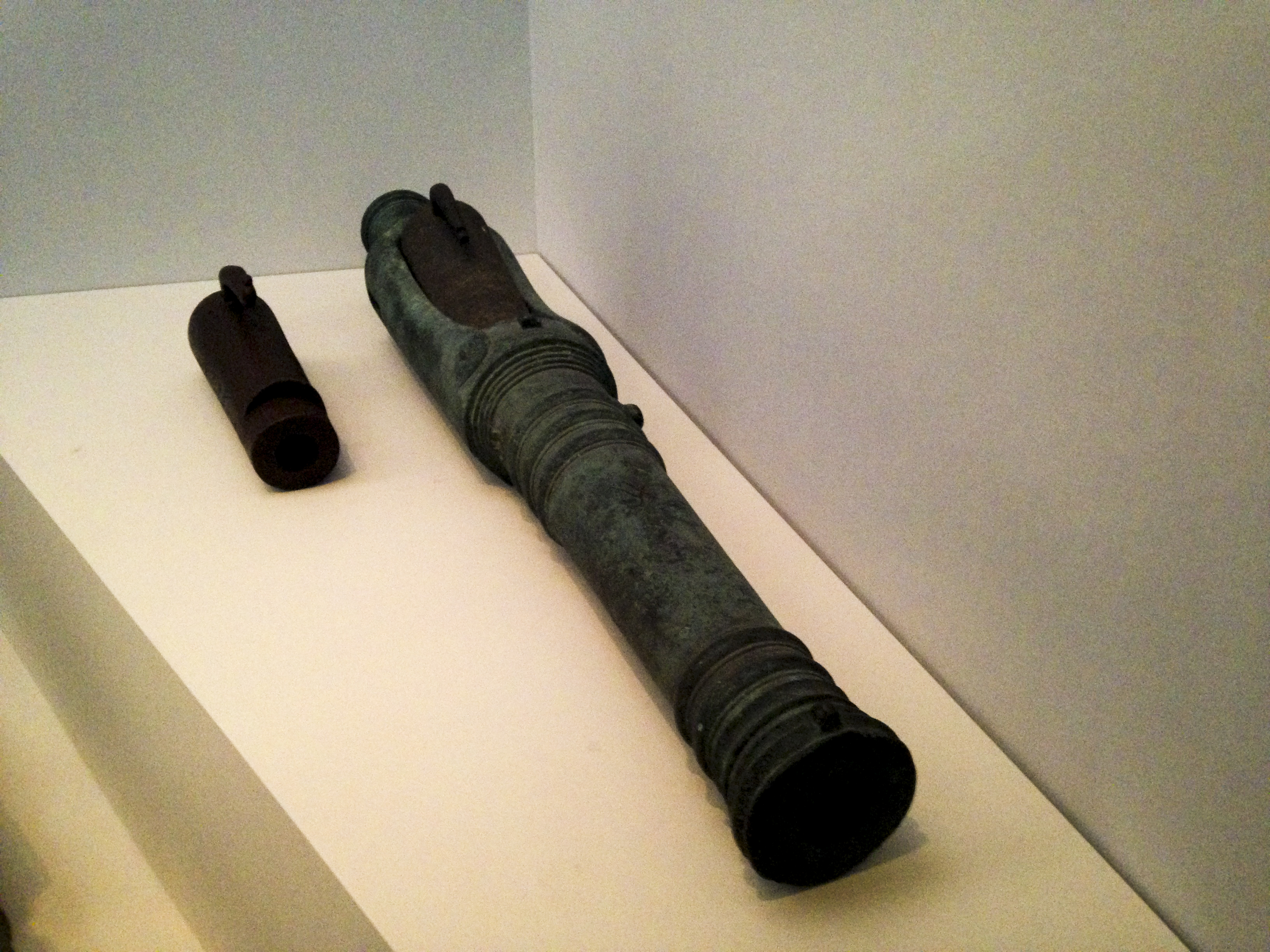 Breech-loading swivel gun located in Jinju national museum of South Korea